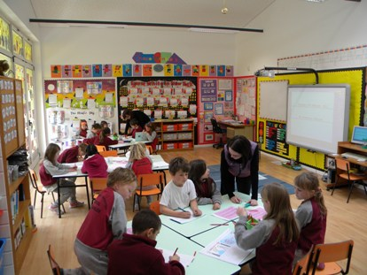 IPS - Classroom View